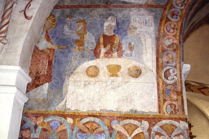 Jørlunde Kirke (church)